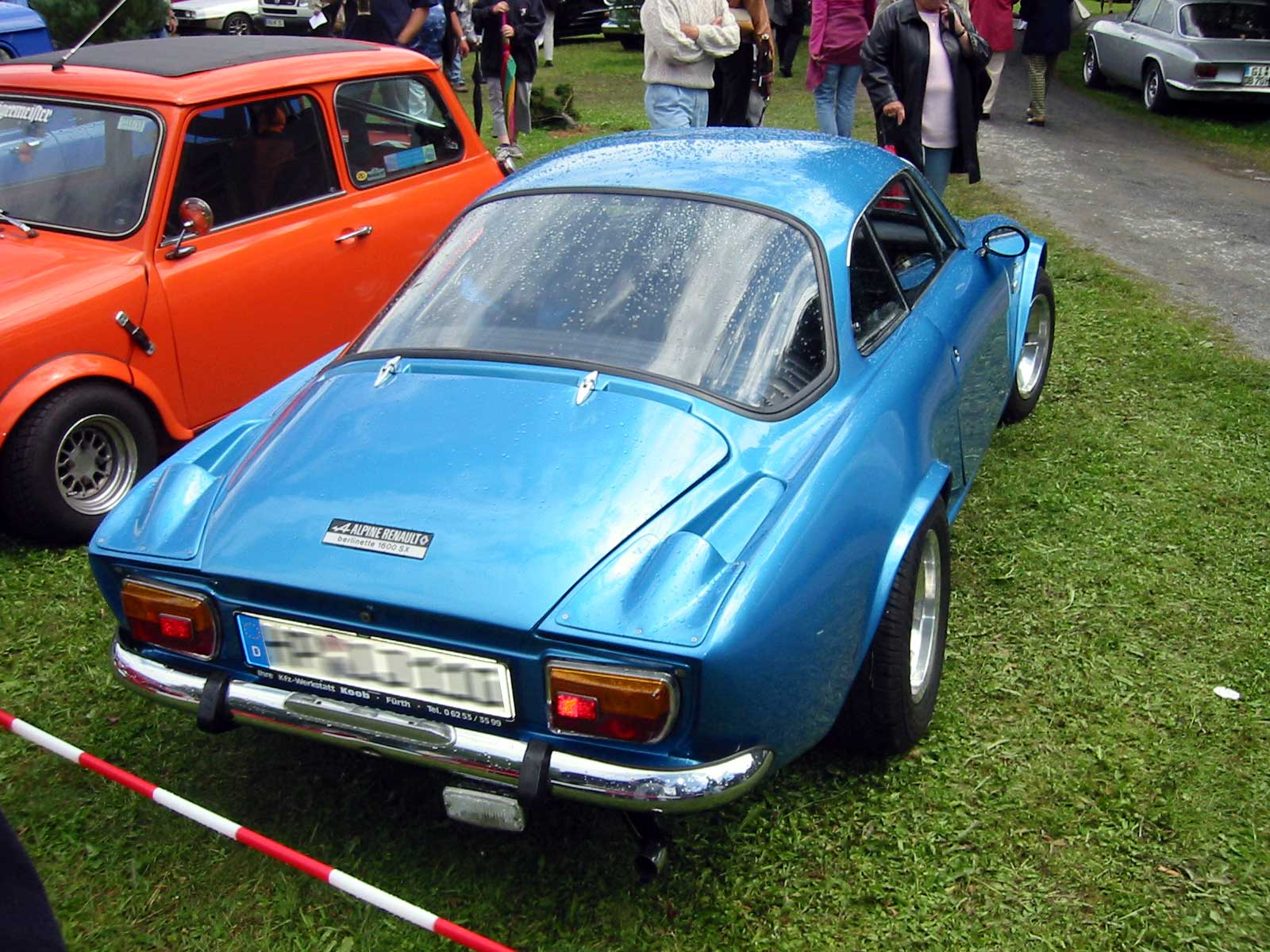 Renault Alpine A110 Berlinette 1600 SX